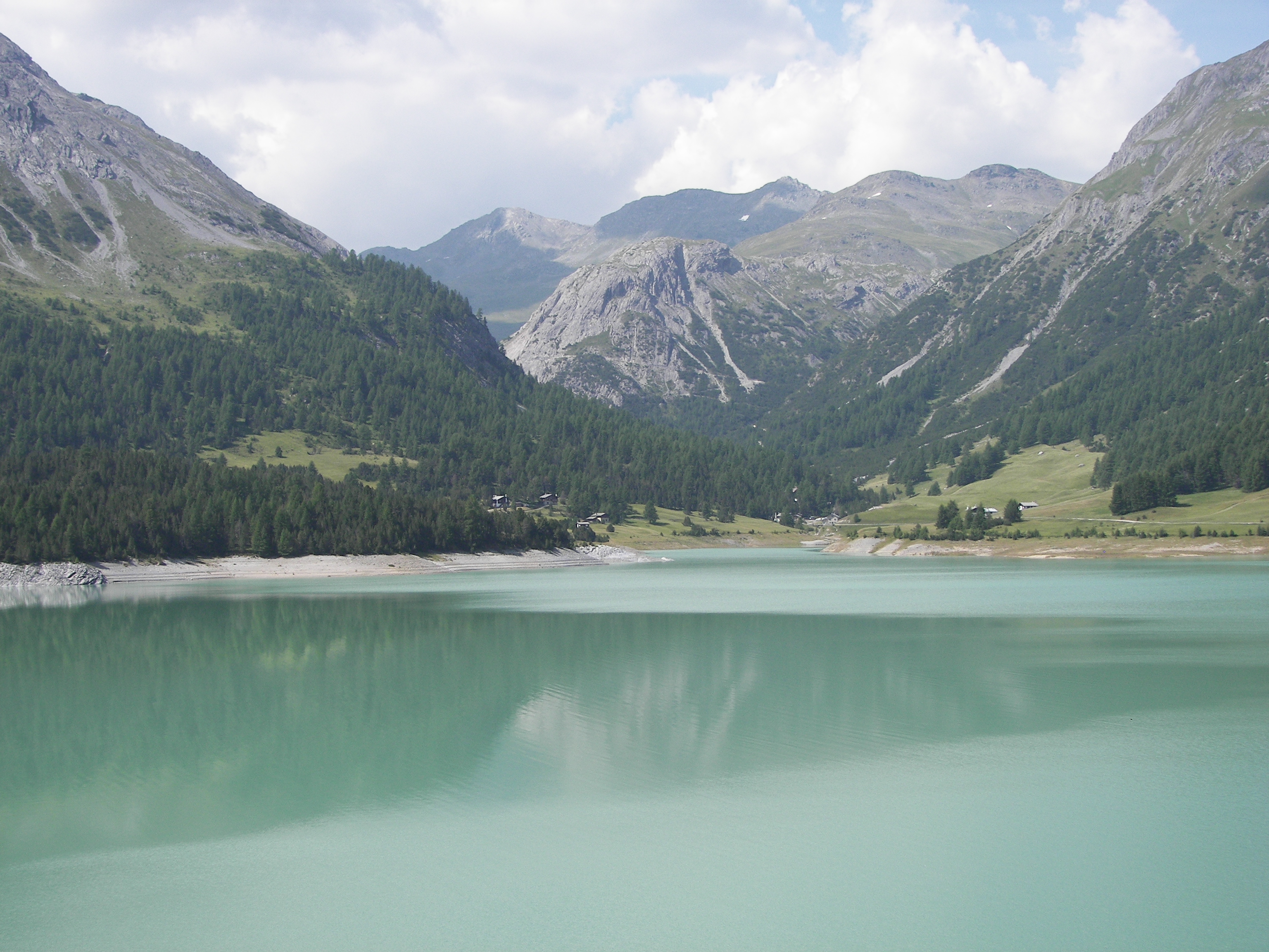 Valdidentro, Province of Sondrio, Italy